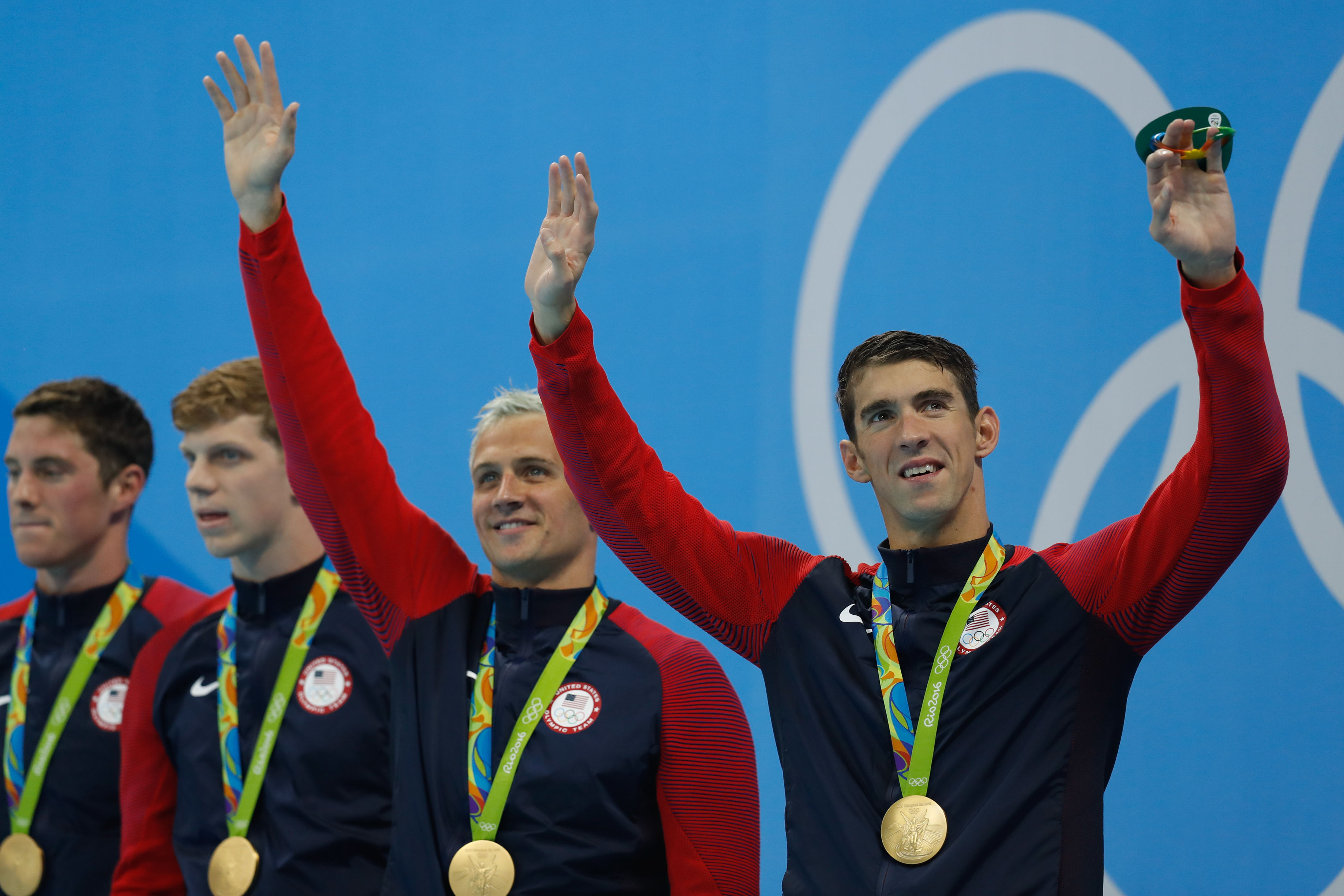 Rio de Janeiro - Equipe norte-americana com Michael Phelps ganha ouro no revezamento 4 por 200m, nos Jogos Rio 2016. (Fernando Frazão/Agência Brasil)